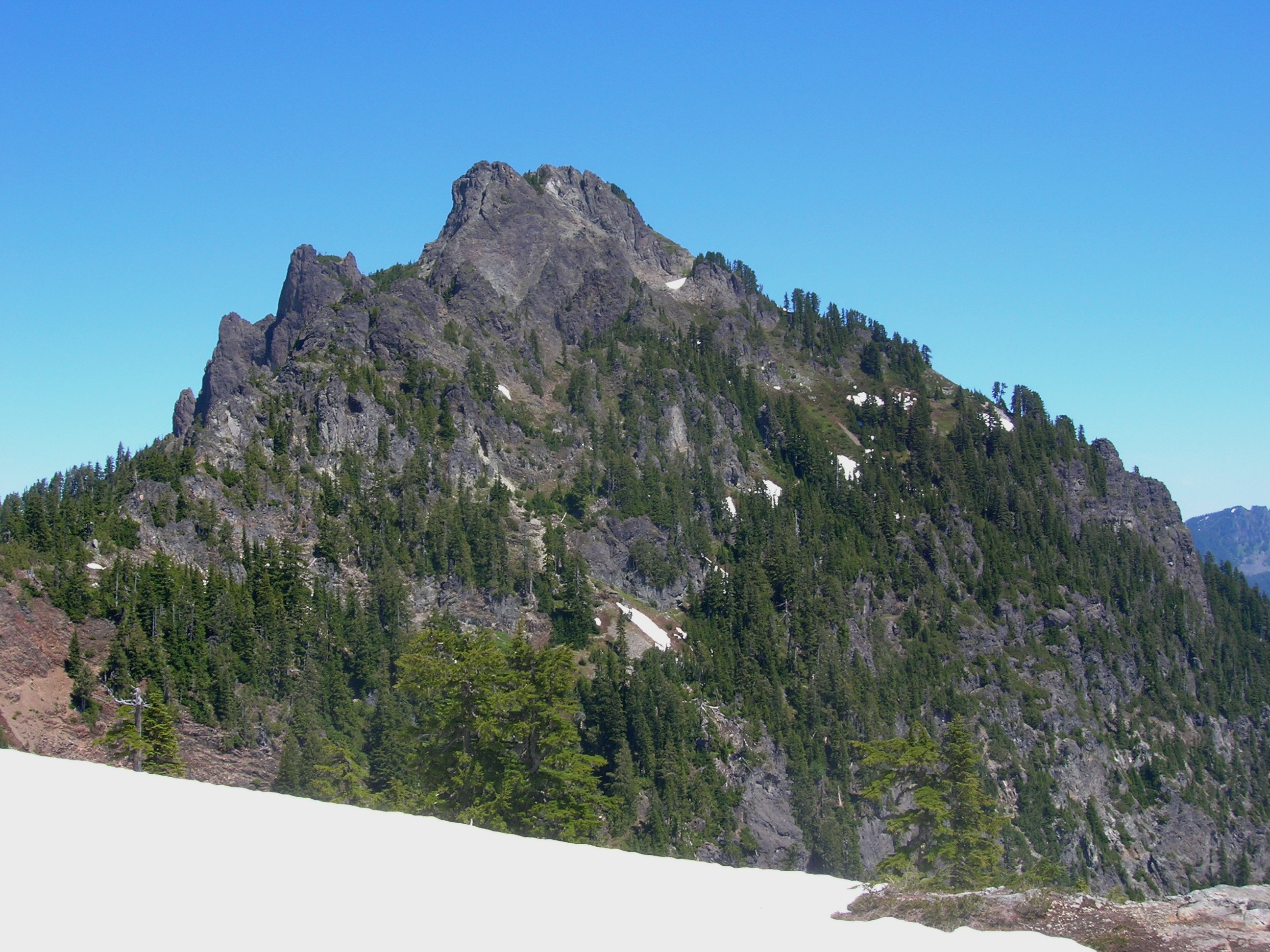 Mt. Forgotten at Perry Creek Research Natural Area